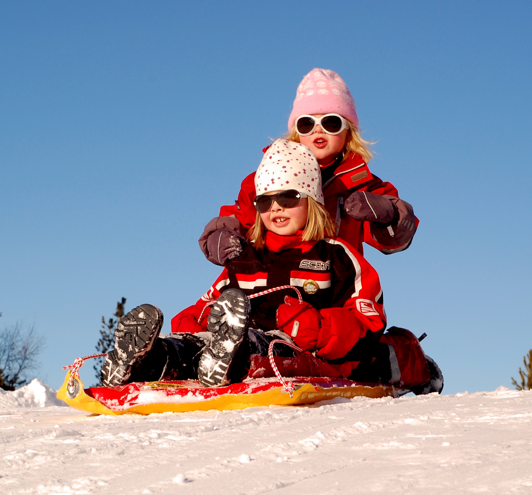 Children using a åkmadrass